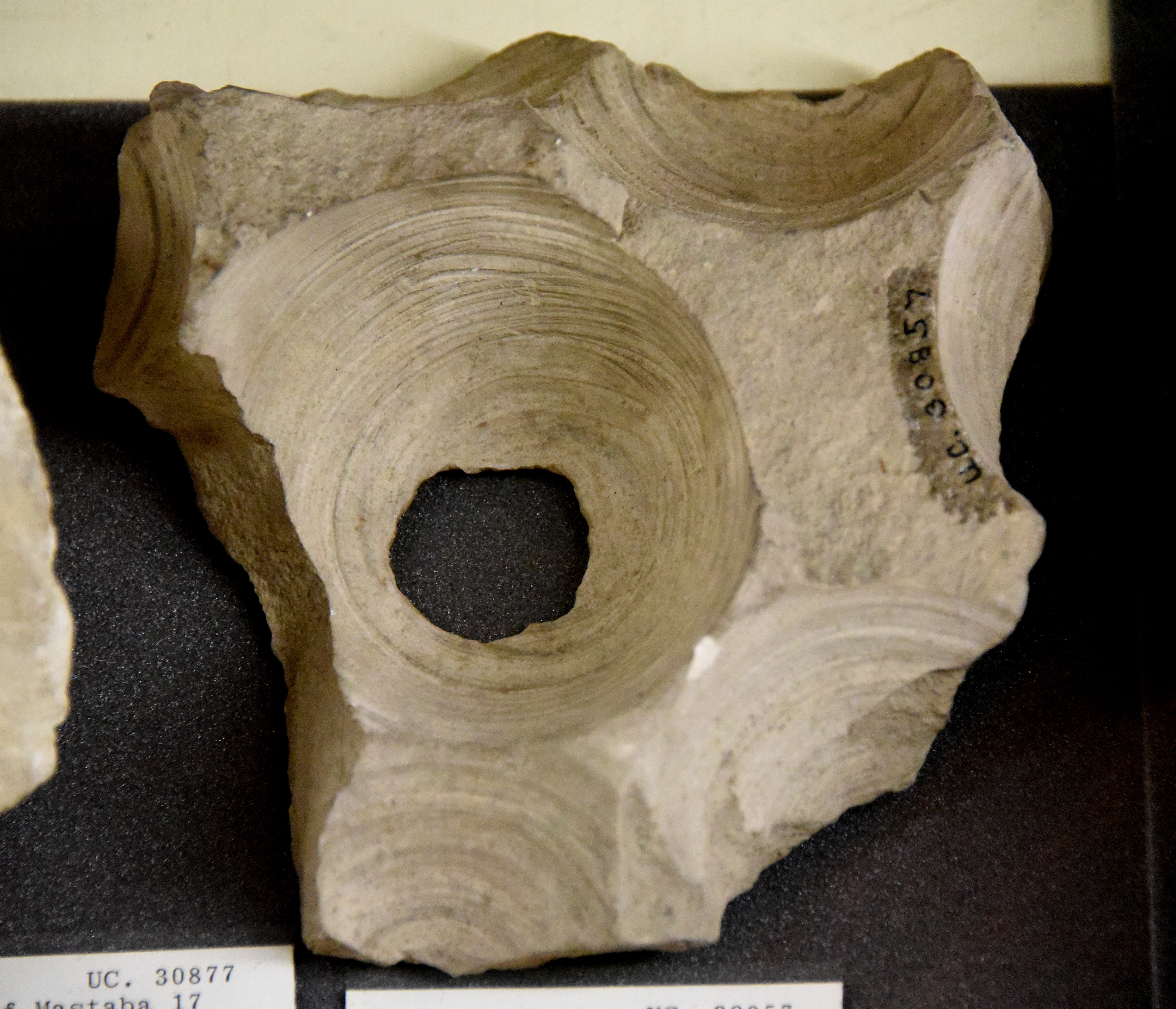 Sneferu Pyramid waste limestone block. Hole in bottom, used as pivot block to turn heavy levers on in moving stones. 4th Dynasty. From Meidum, Egypt. The Petrie Museum of Egyptian Archaeology, London. With thanks to the Petrie Museum of Egyptian Archaeology, UCL.